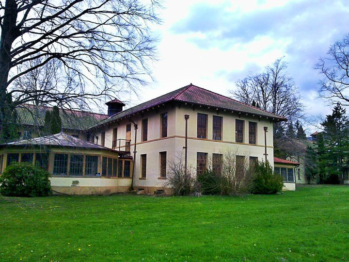 Northern State Hospital, Roughly bounded by Thompson Dr. to the south, Hemlick Dr. to the east, Hub Dr. to the west, and 1/4 mile south of Mosier Rd. to the north. Sedro-Woolley